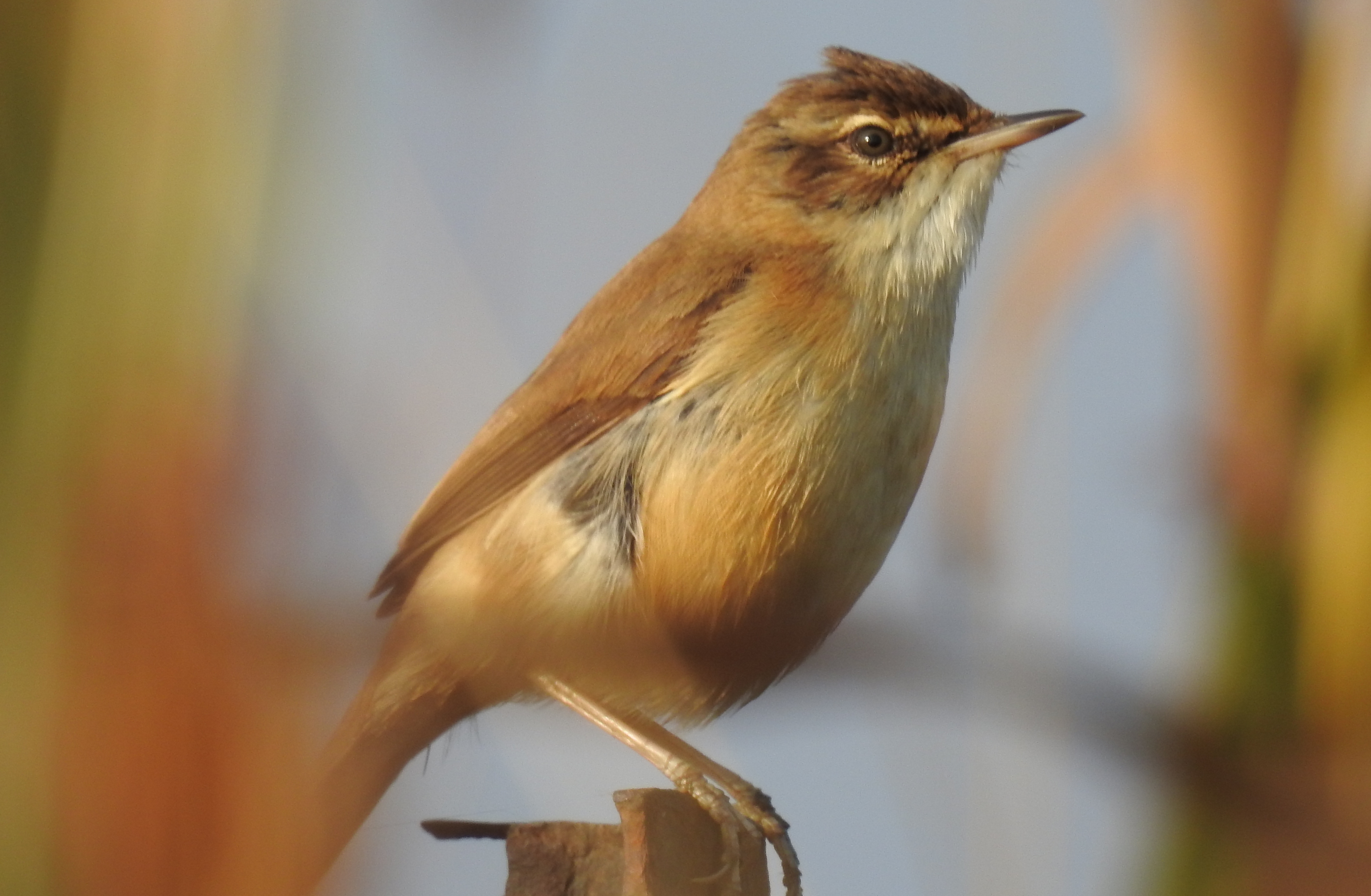 Paddyfield Warbler Acrocephalus agricola. Photographed by Dr. Raju Kasambe at Dombivli, Maharashtra, India.